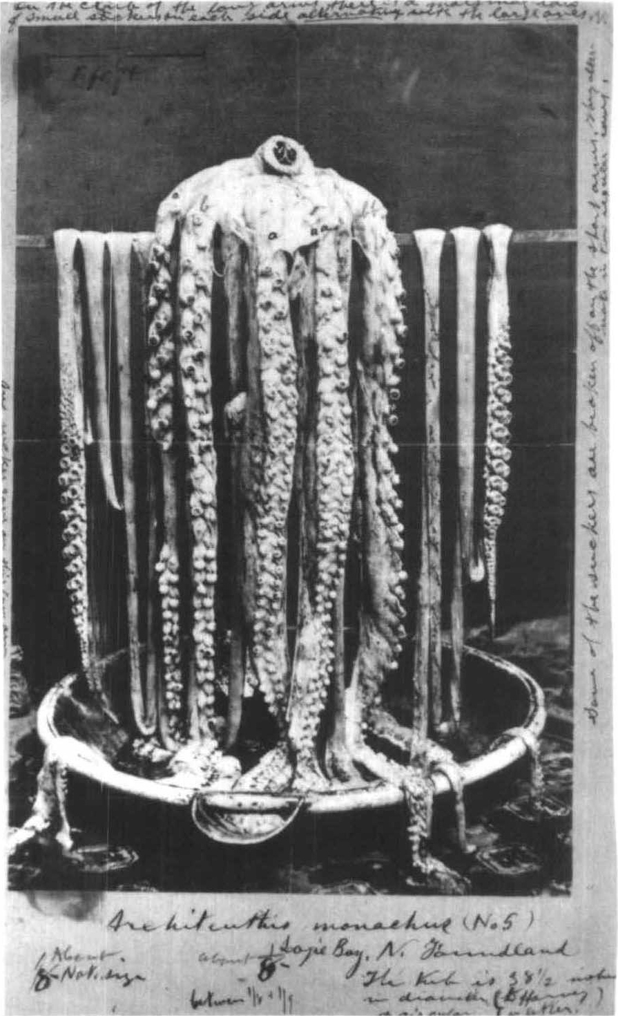 Arms, tentacles and head (buccal region including beak visible) of giant squid from Logy Bay, Newfoundland, photographed draped over Moses Harvey's sponge bath, November 1873. Annotations by Addison Emery Verrill include a 1-foot scale bar and the following text: "Architeuthis monachus (No. 5) Logie Bay, N.Foundland about 1/8 natural size between 1/8 and 1/9. The tub is 38 1/2 inches in diameter and circular. Harvey (?) letter. Some of the suckers are broken off on the short arms. They alternate in two regular rows. On the club of the long arm there is a marginal row of small suckers on each side alternating with the large ones. One sucker gone on this long arm." (Aldrich, 1991:459)